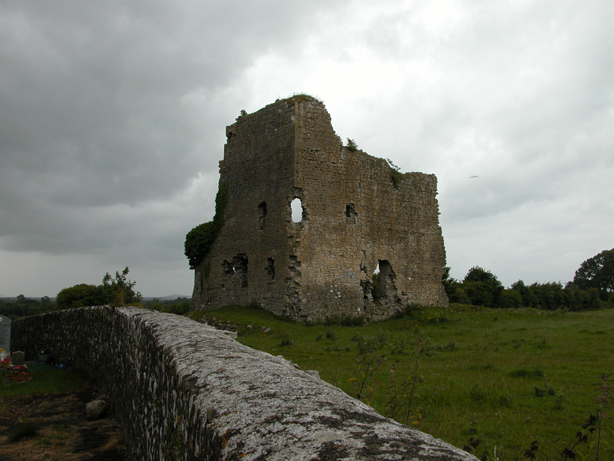 Carrick Castle, County Kildare